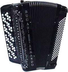 Bugari Armando, 120bass, 5-row button-accordion, 4 reeds per tone Own picture